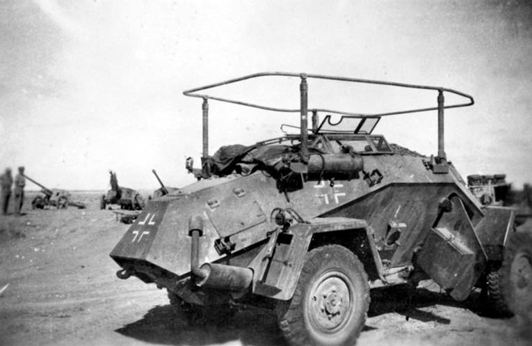 An abandoned German SdKfz 223, Leichter Panzerspähwagen (light armoured car) which has been captured by advancing allied troops in North Africa. The vehicle has been fitted with a folding frame antenna for use with a long range wireless set which is fitted inside the vehicle. Three German 5 cm Panzerabwehrkanone 38 (Pak 38 anti tank guns) are visible in the background.